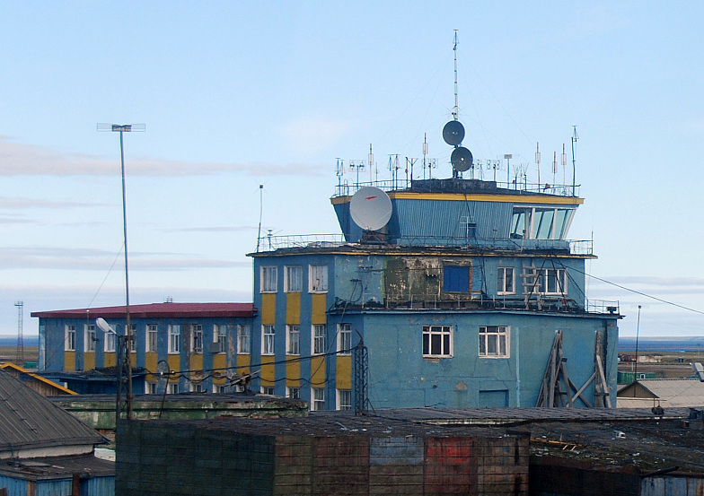 Tiksi Airport, Bulunsky District, Sakha Republic, Russia